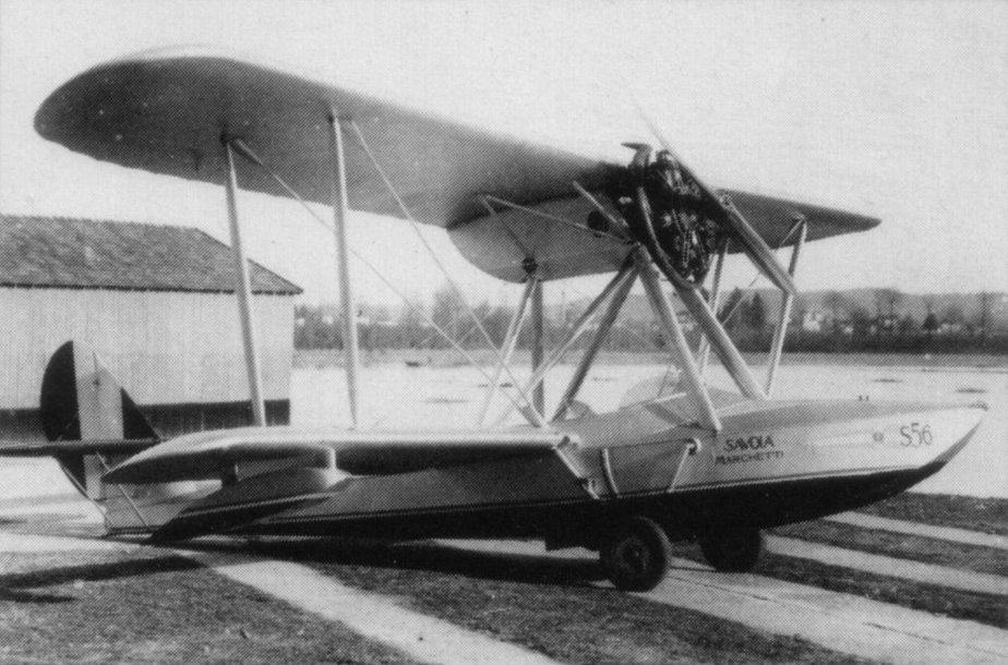 Savoia-Marchetti S.56 - 1920s Italian biplane flying boat trainer and tourer